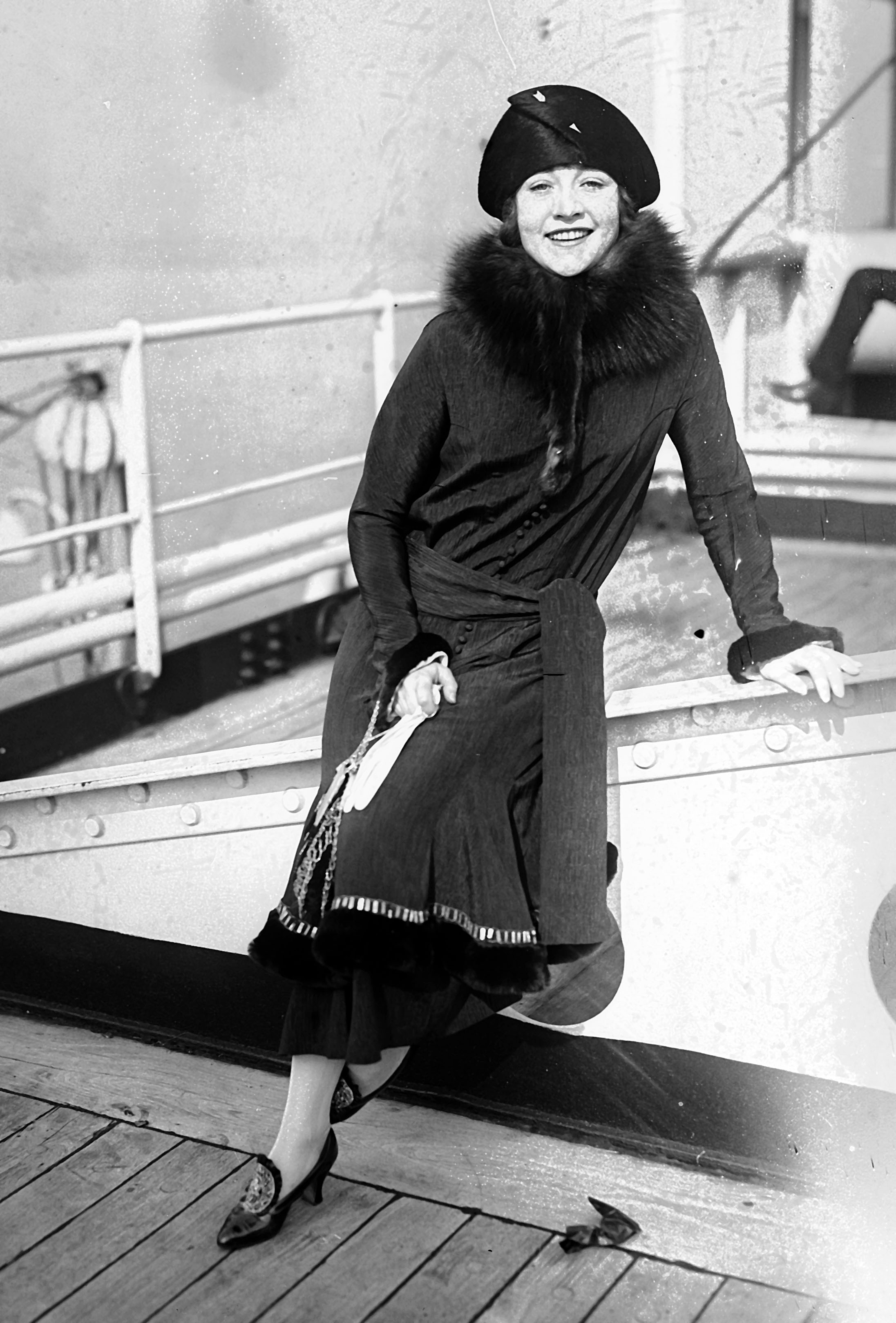 Actress Betty Compson on board a ship